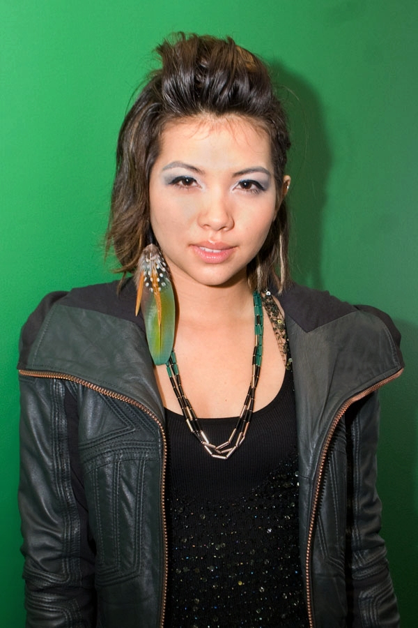 Hayley Kiyoko photo taken at 103.5 KISS FM Chicago Radio Station on April 30, 2010.